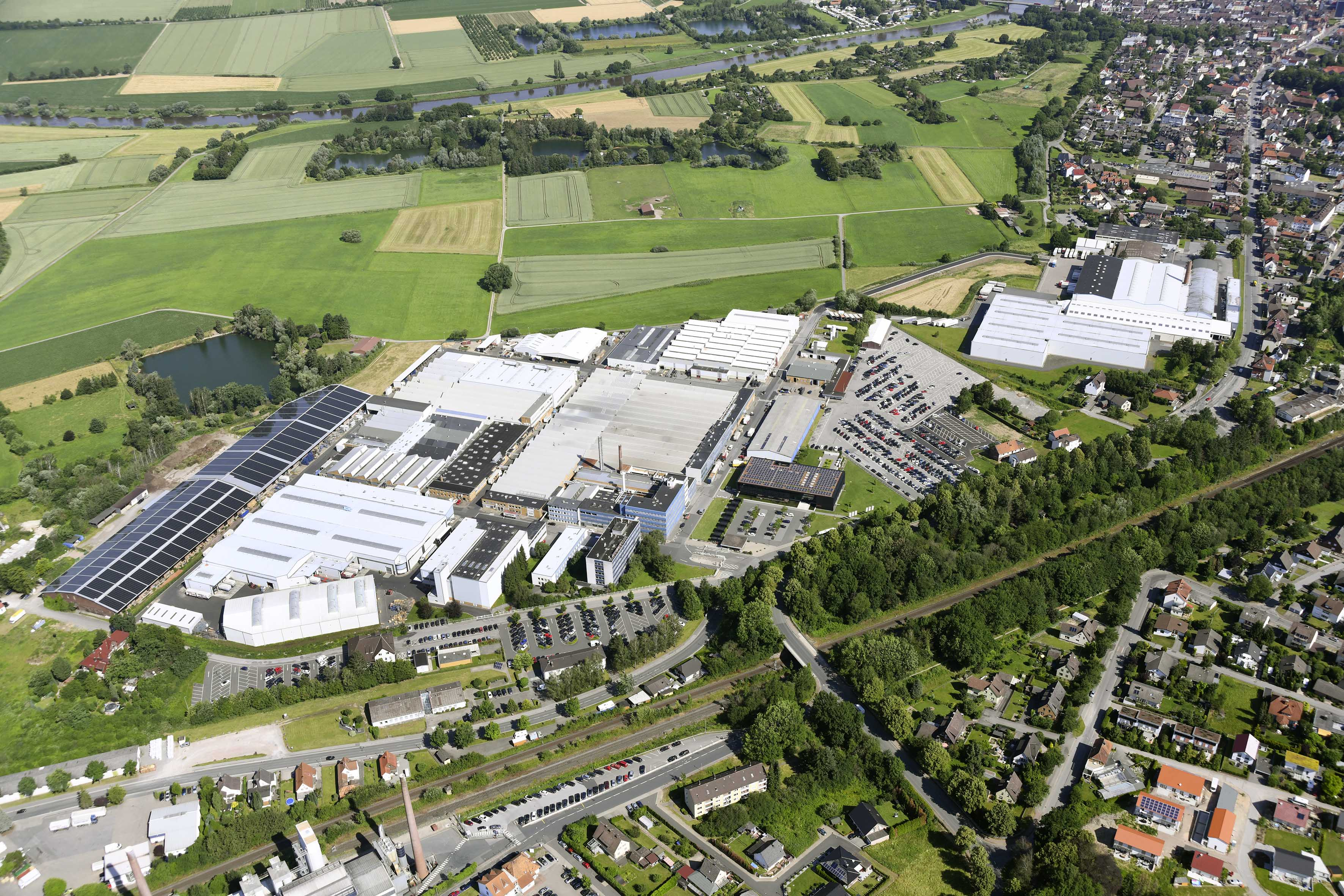 Stiebel Eltron Holzminden (Germany)